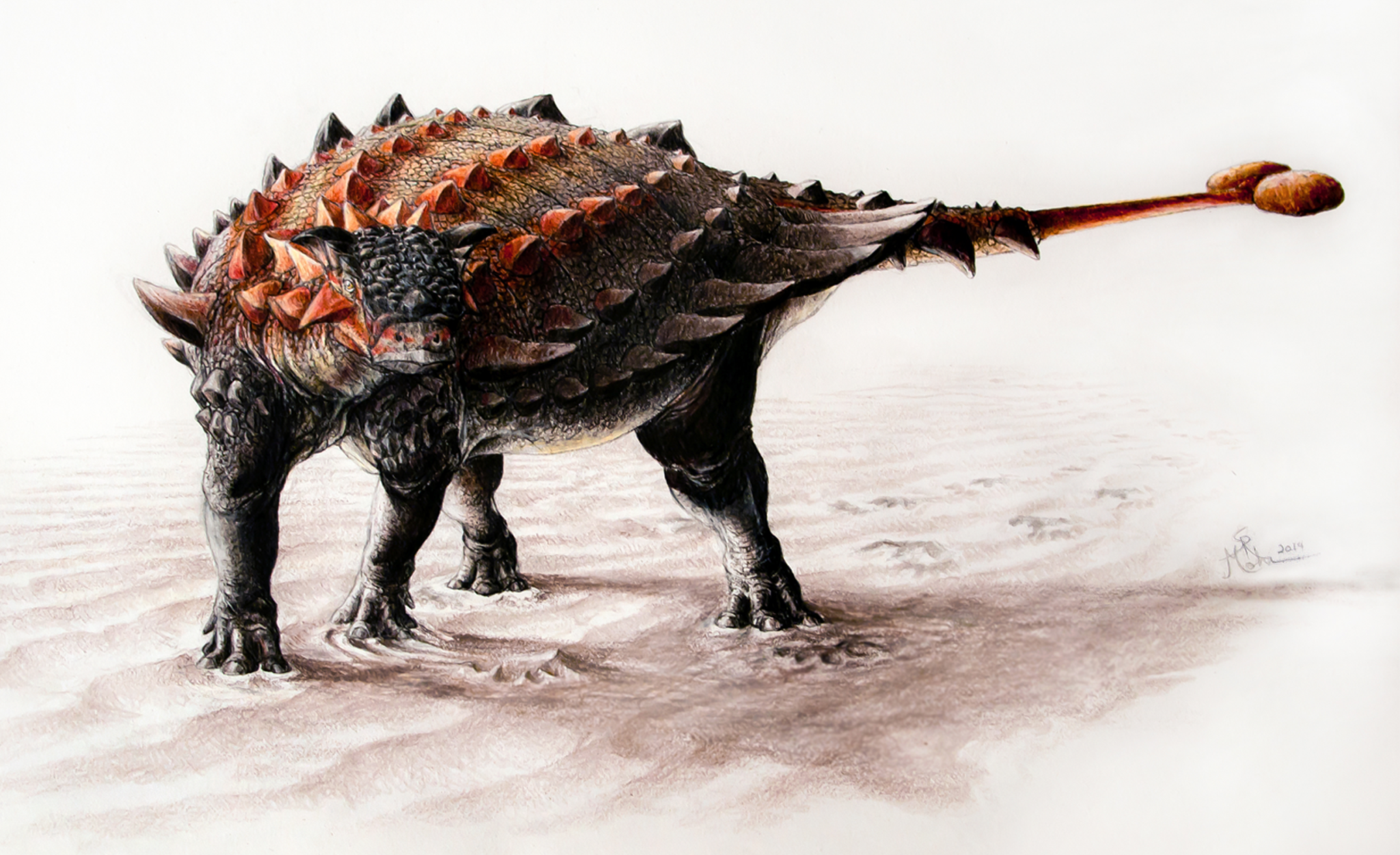 Speculative life restoration of Ziapelta sanjuanensis.